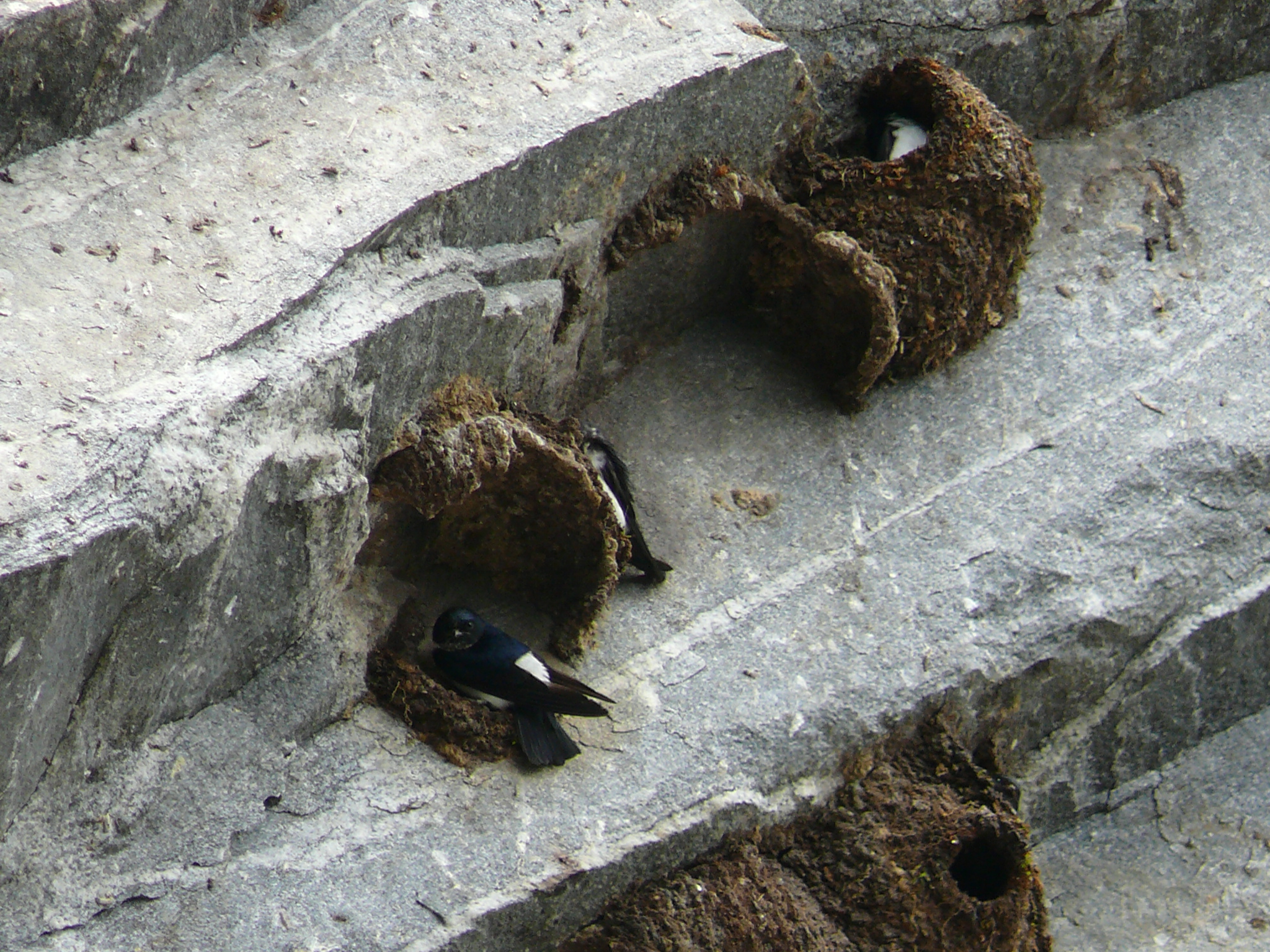 Nepal House Martins and nests in Bhutan.